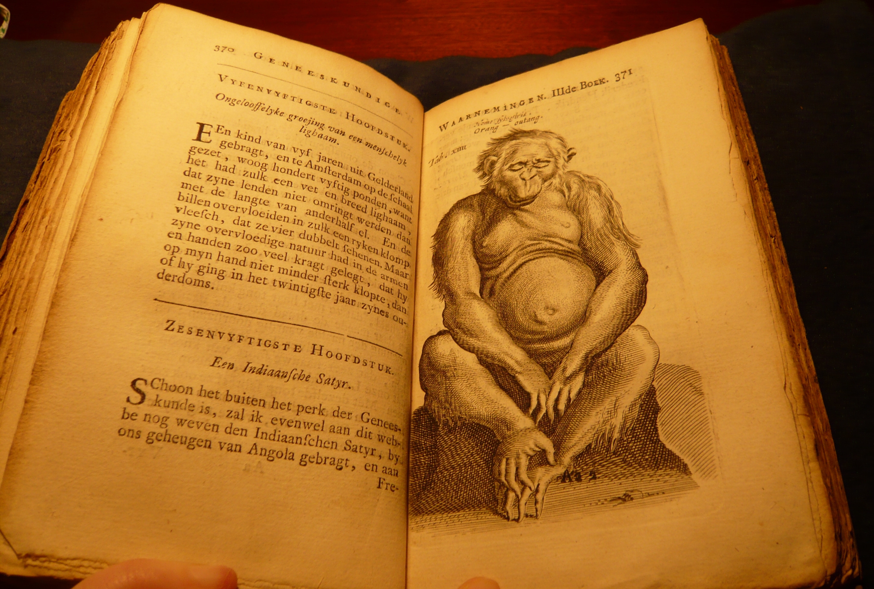 Most popular plate from Nicolaes Tulp's book "Observationes Medicae", showing the earliest known western drawing of a chimpanzee. This is the version from 1740, translated and embellished by Ludovicus Wolzogen. The book contains translations of medical notes by Tulp, but has some extra additions and plates. Published a century later than the original, and both were quite popular.